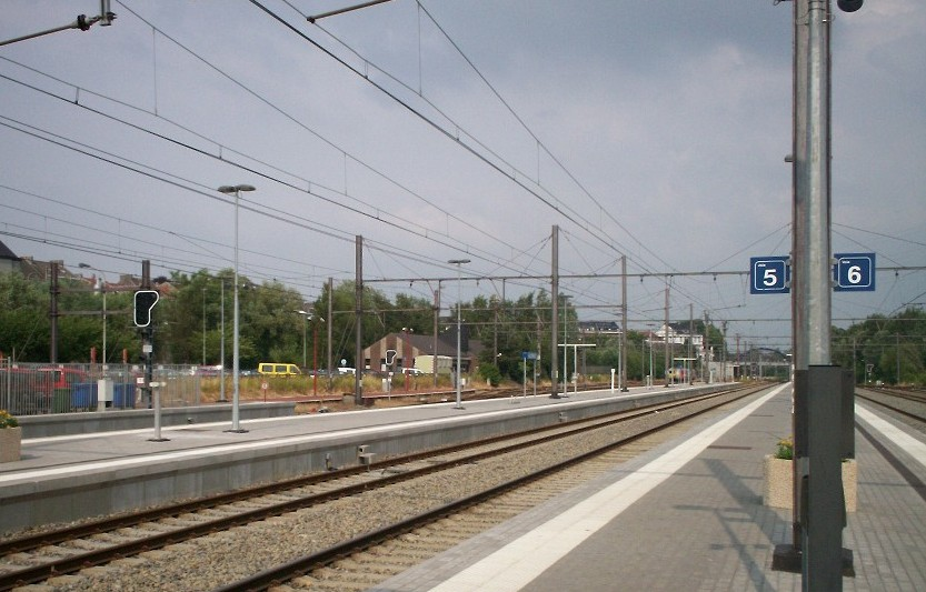 Welkenraedt Station